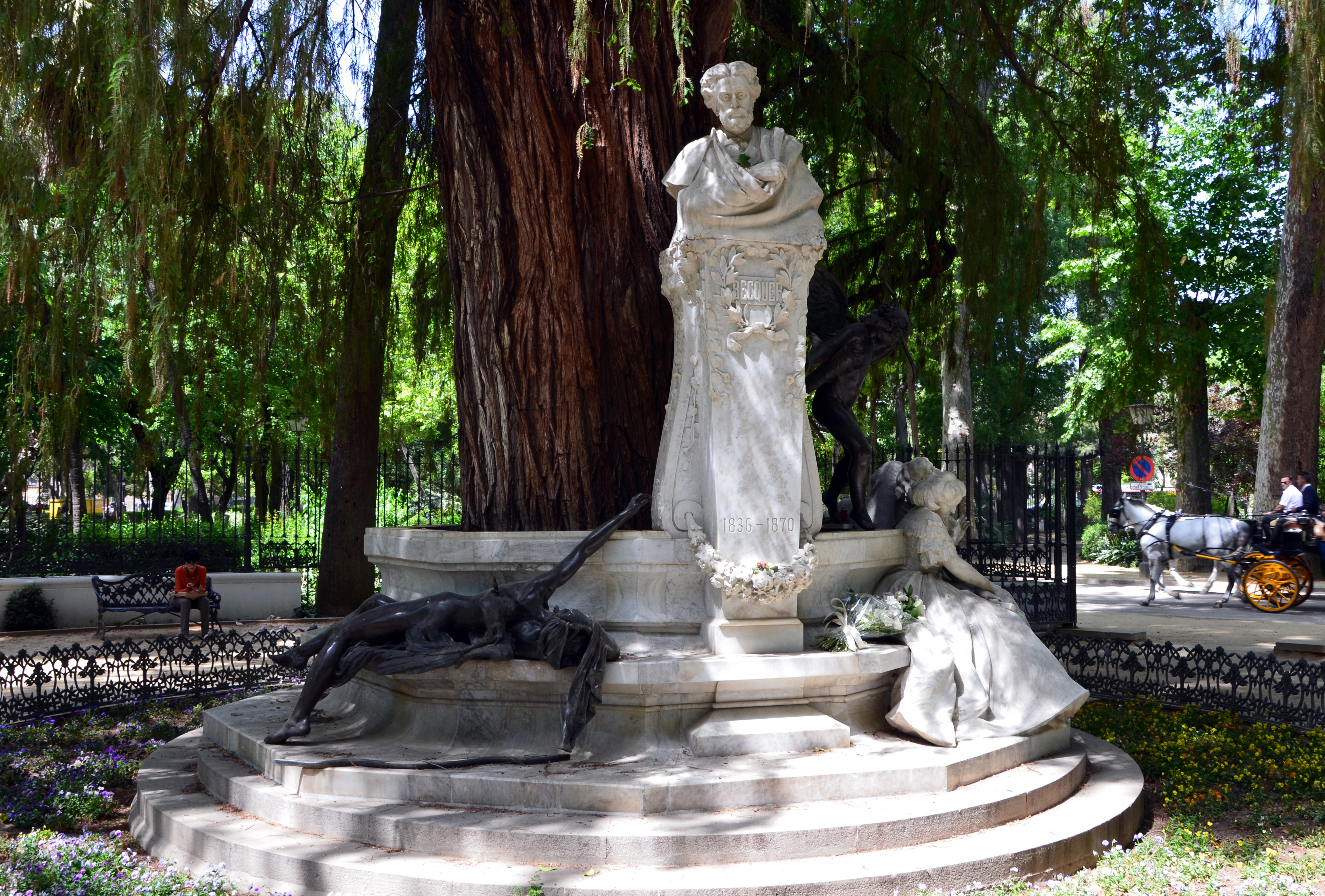 The monument to Gustavo Adolfo Bécquer, in the Maria Luisa Park (Seville, Spain). It was constructed in 1911 by Lorenzo Coullaut-Valera, in collaboration with the architect Juan Talavera Heredia and Catalan sculptor Federico Bechini.